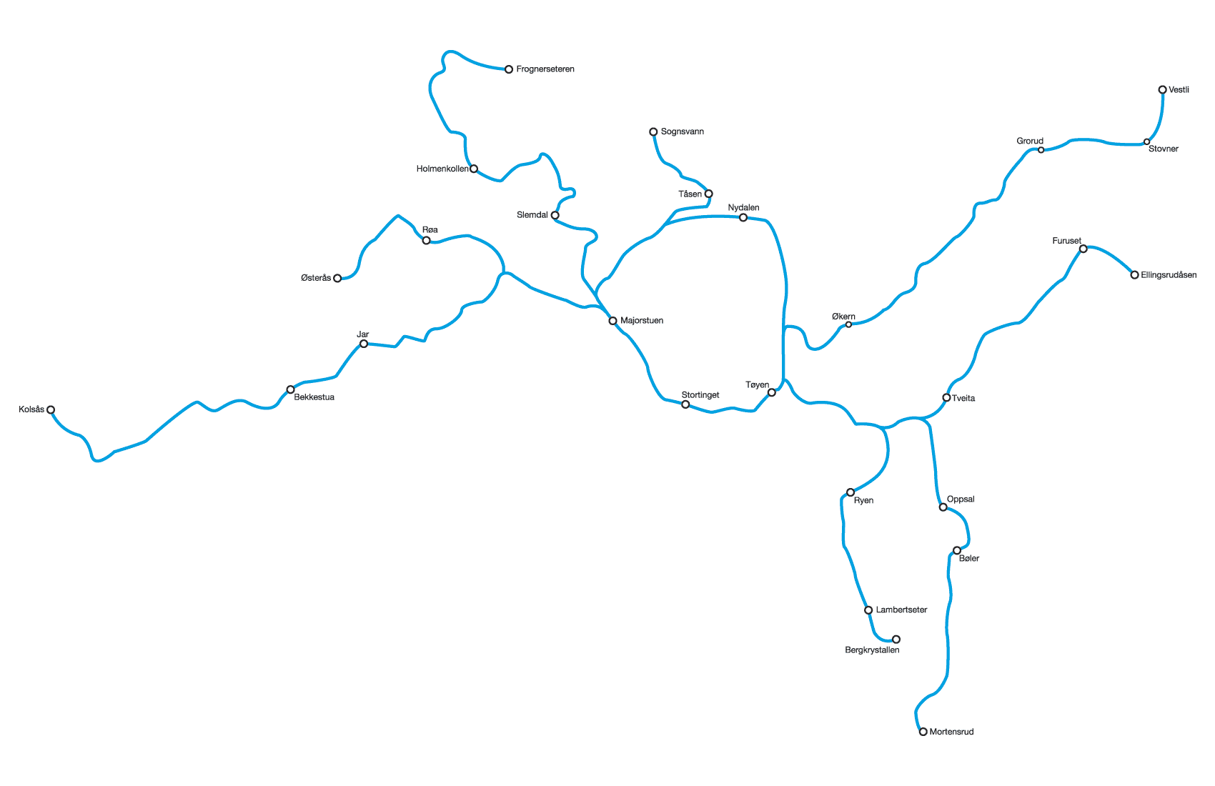 Diagram of the Oslo T-bane network